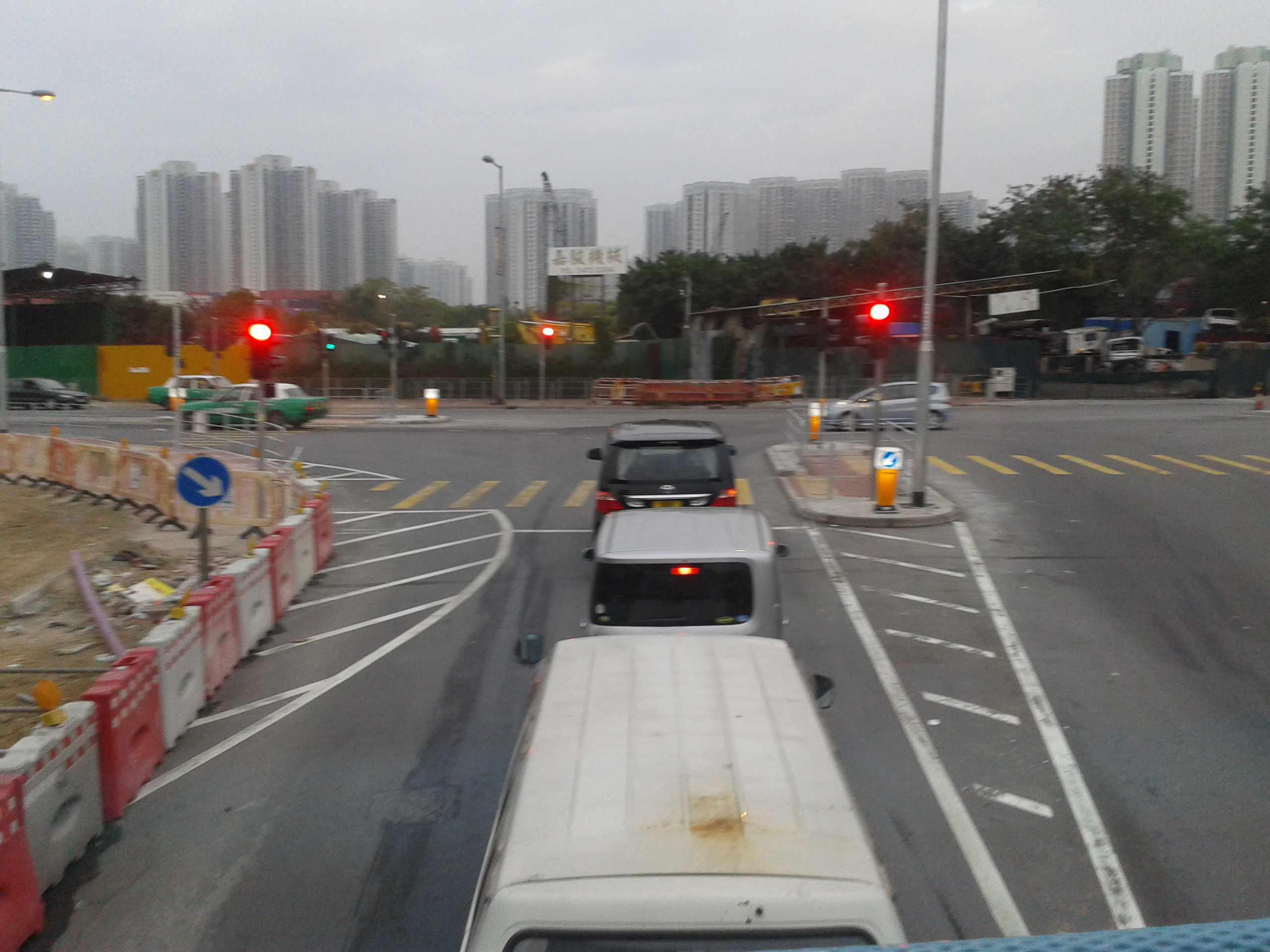 The expand of Ping Ha Road (2010/7)